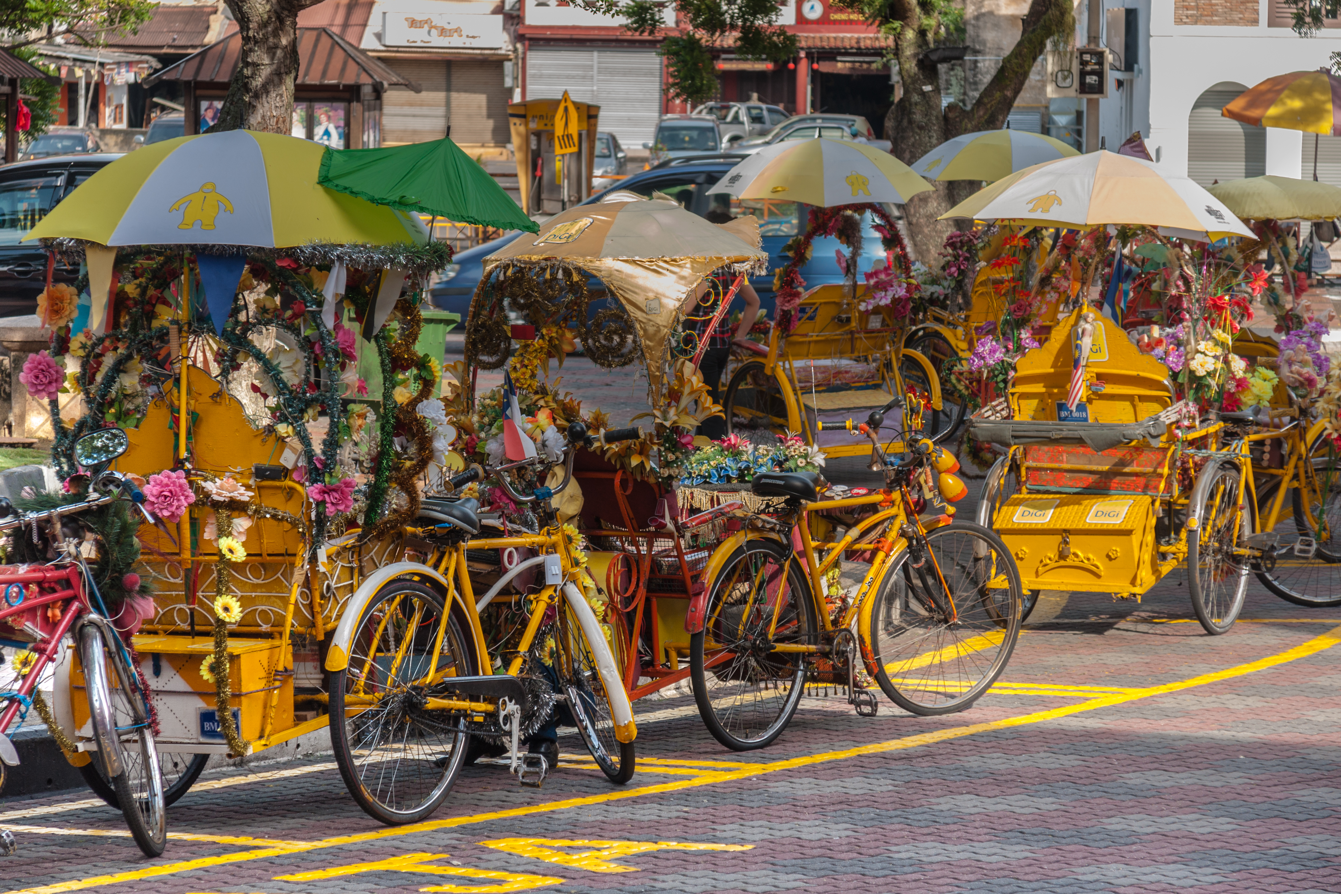 Malacca City, Malaysia: Colorful bikes waiting for customes at Stadhuis Red Square